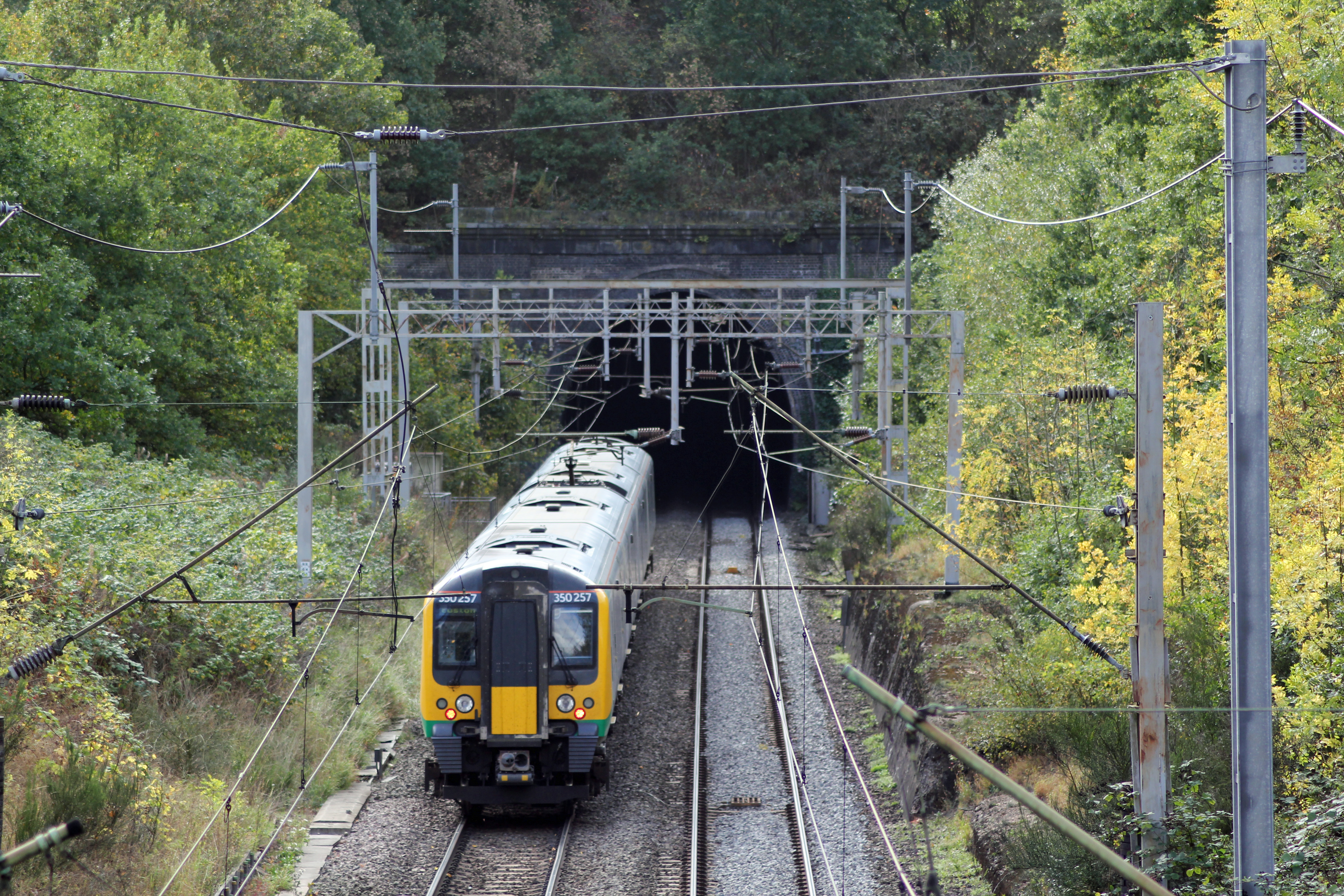 Southbound unit entering north portal of Hunsbury Hill Tunnel, Northampton, England 5 October 2011